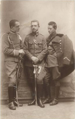 Brotehrs: Jozef, Julian and Brunon Piasecki